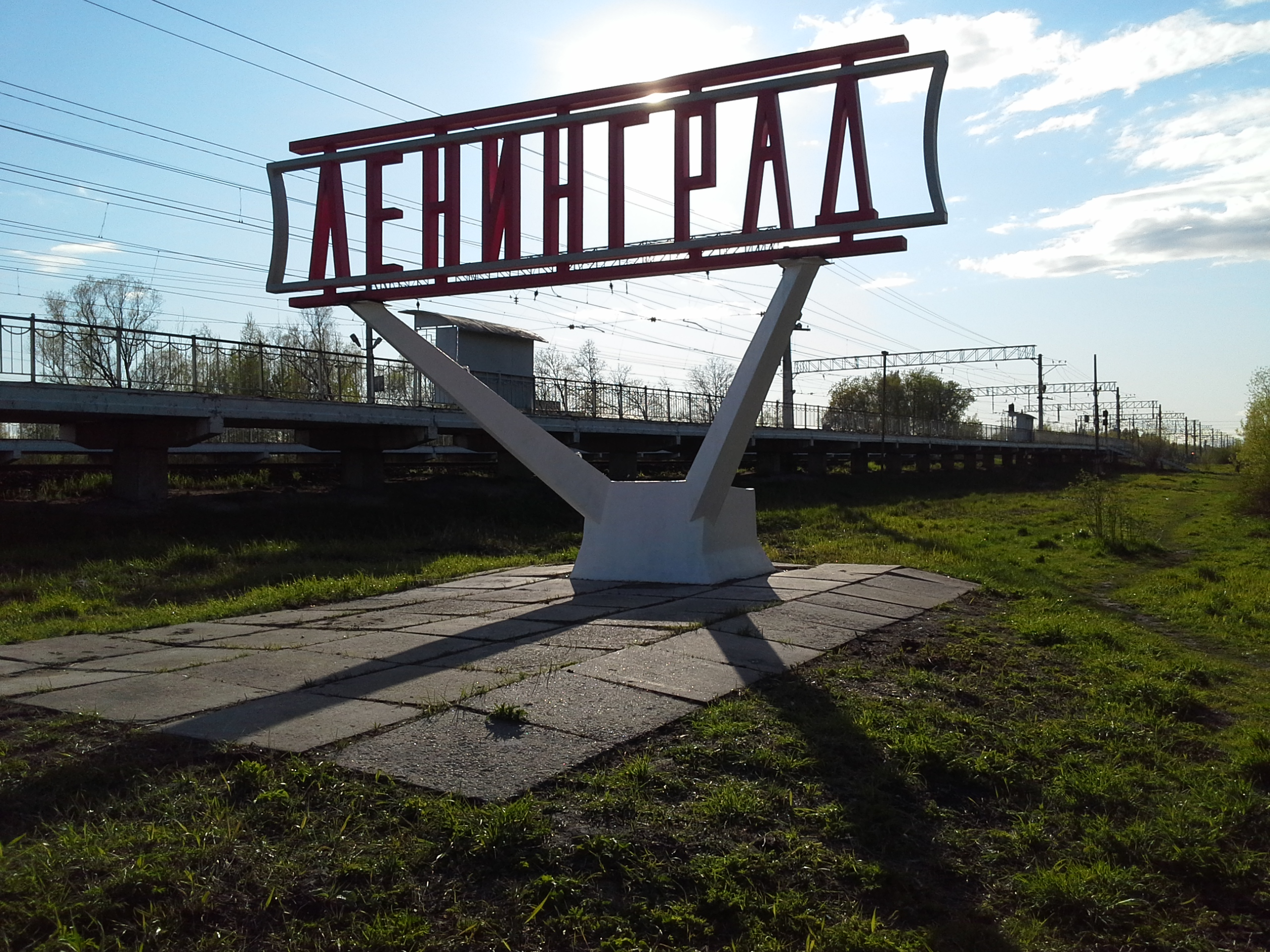 Izhory Leningrad stele